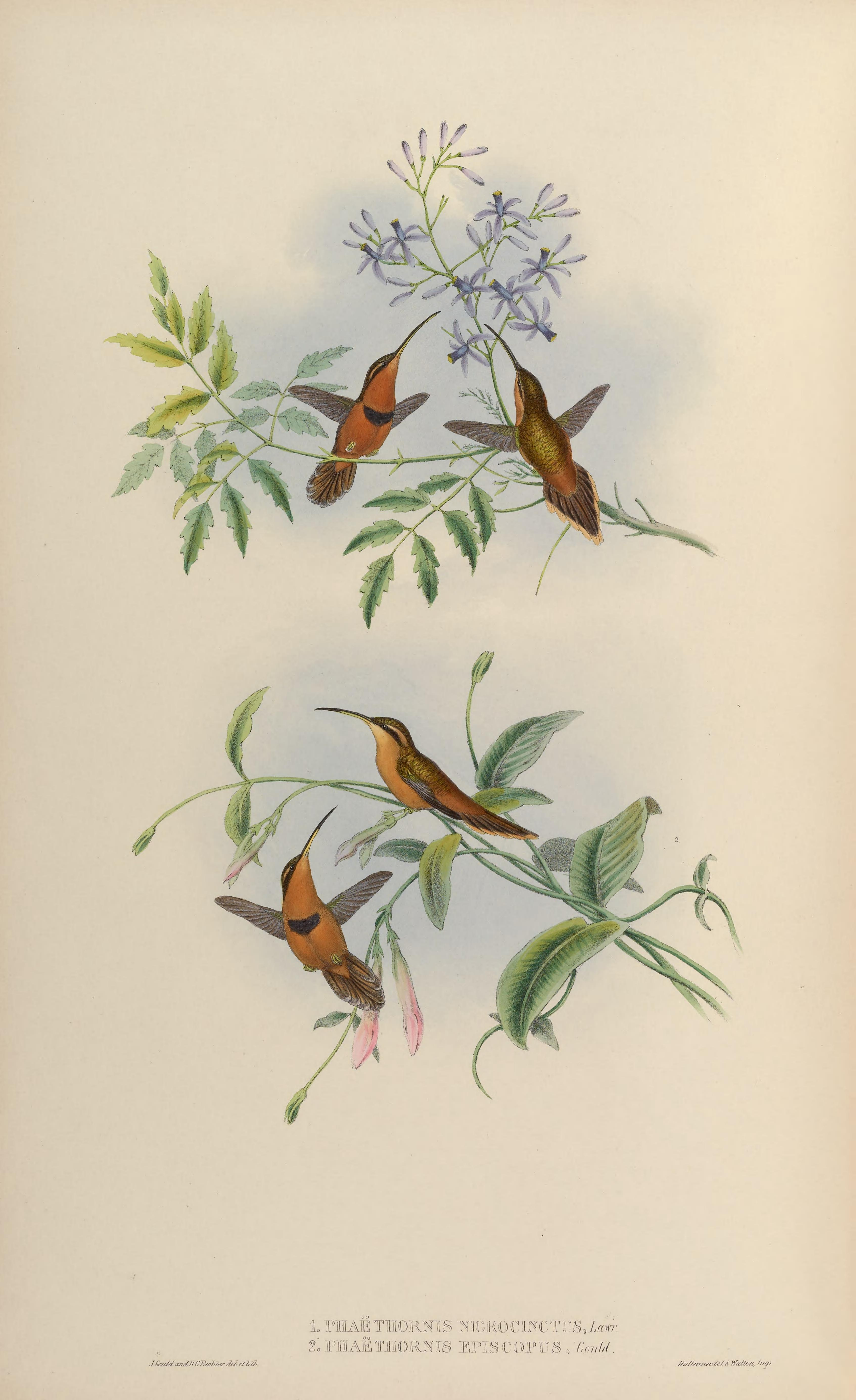 Phaethornis nigricinctus = Phaethornis ruber nigricinctus [1] Phaethornis episcopus = Phaethornis ruber episcopus [2]